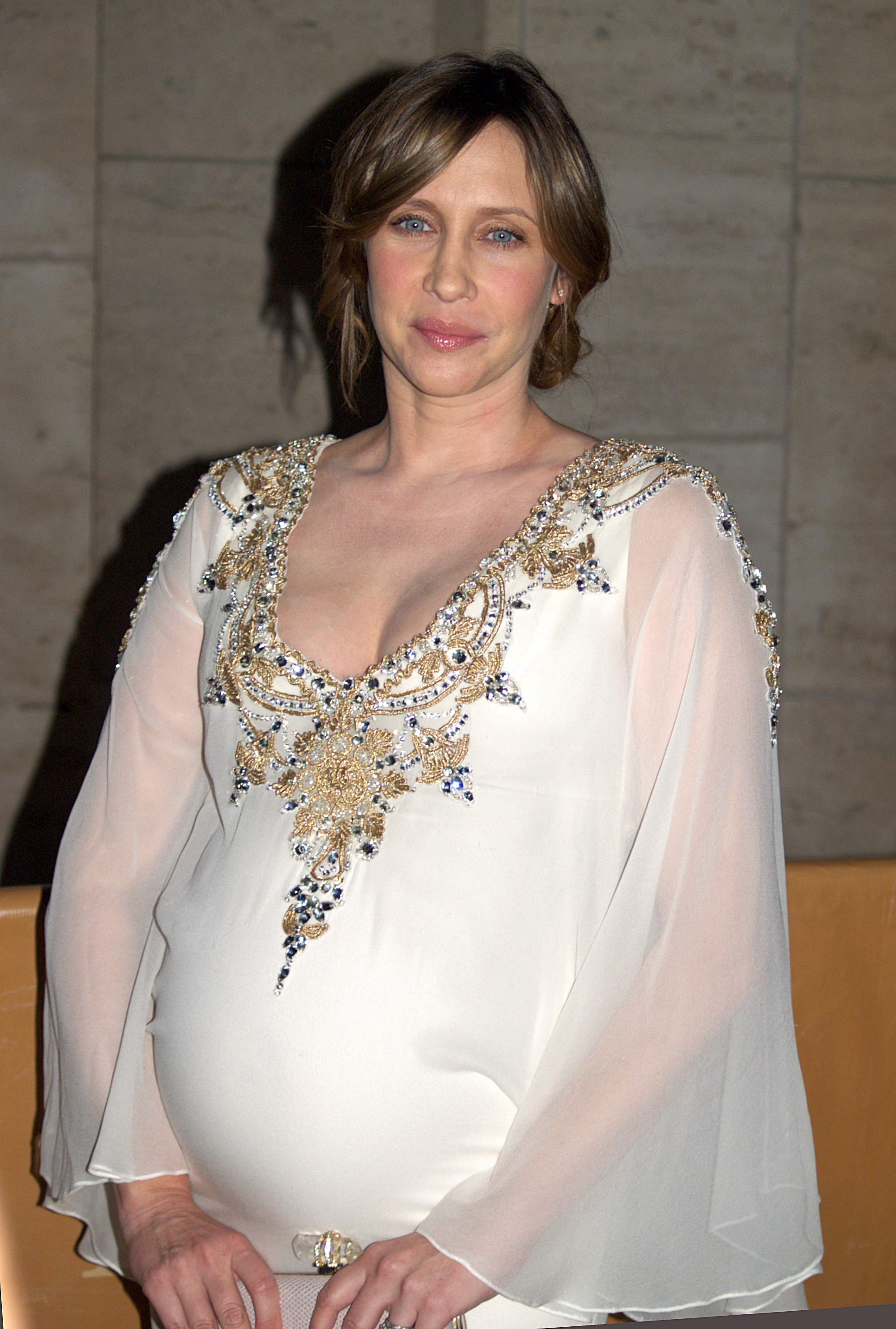 Vera Farmiga pregnant at Metropolitan Opera's 2010-11 Season Opening Night - "Das Rheingold"